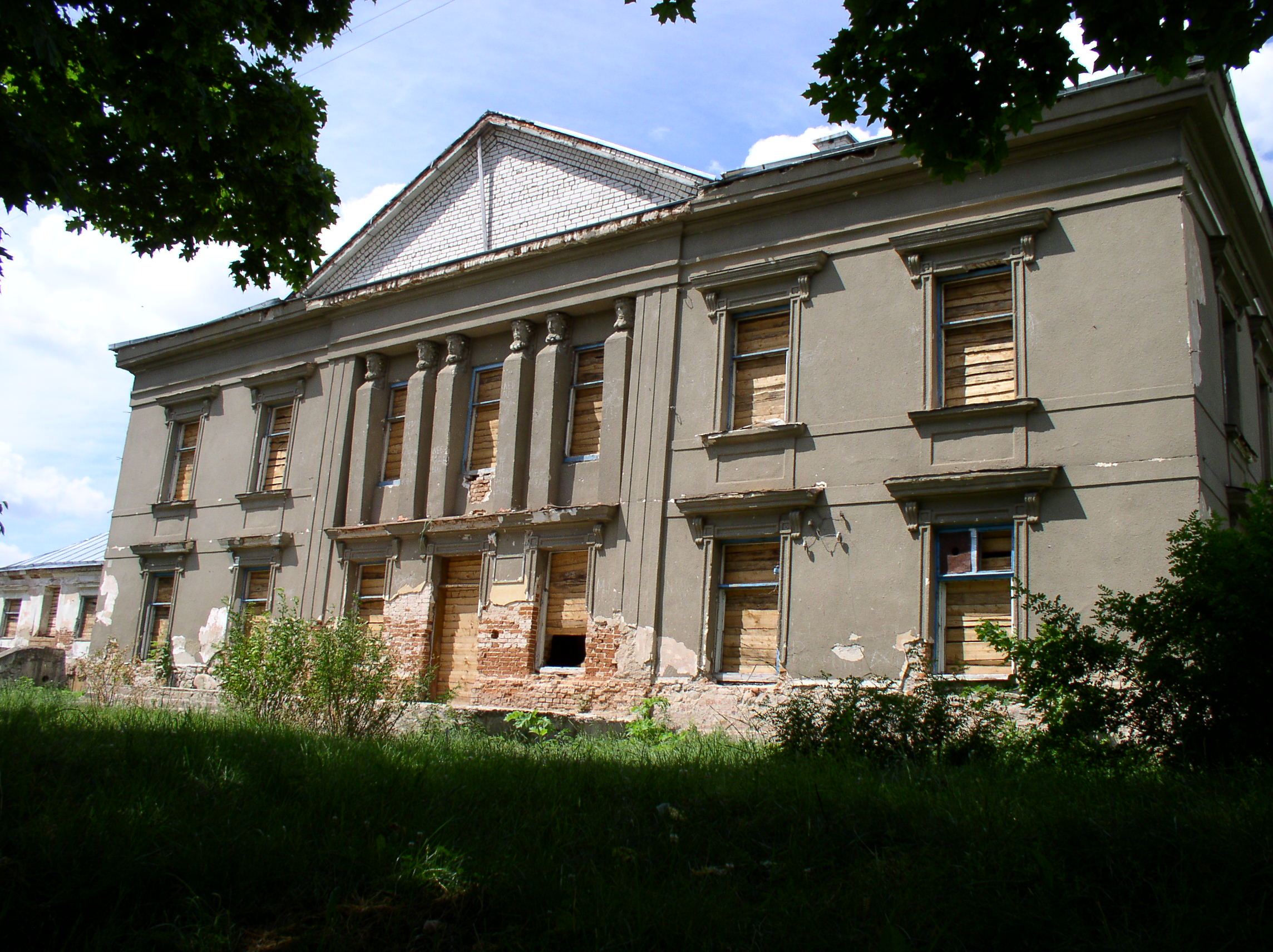 Palace of Radzivil family. Palanechka, Belarus